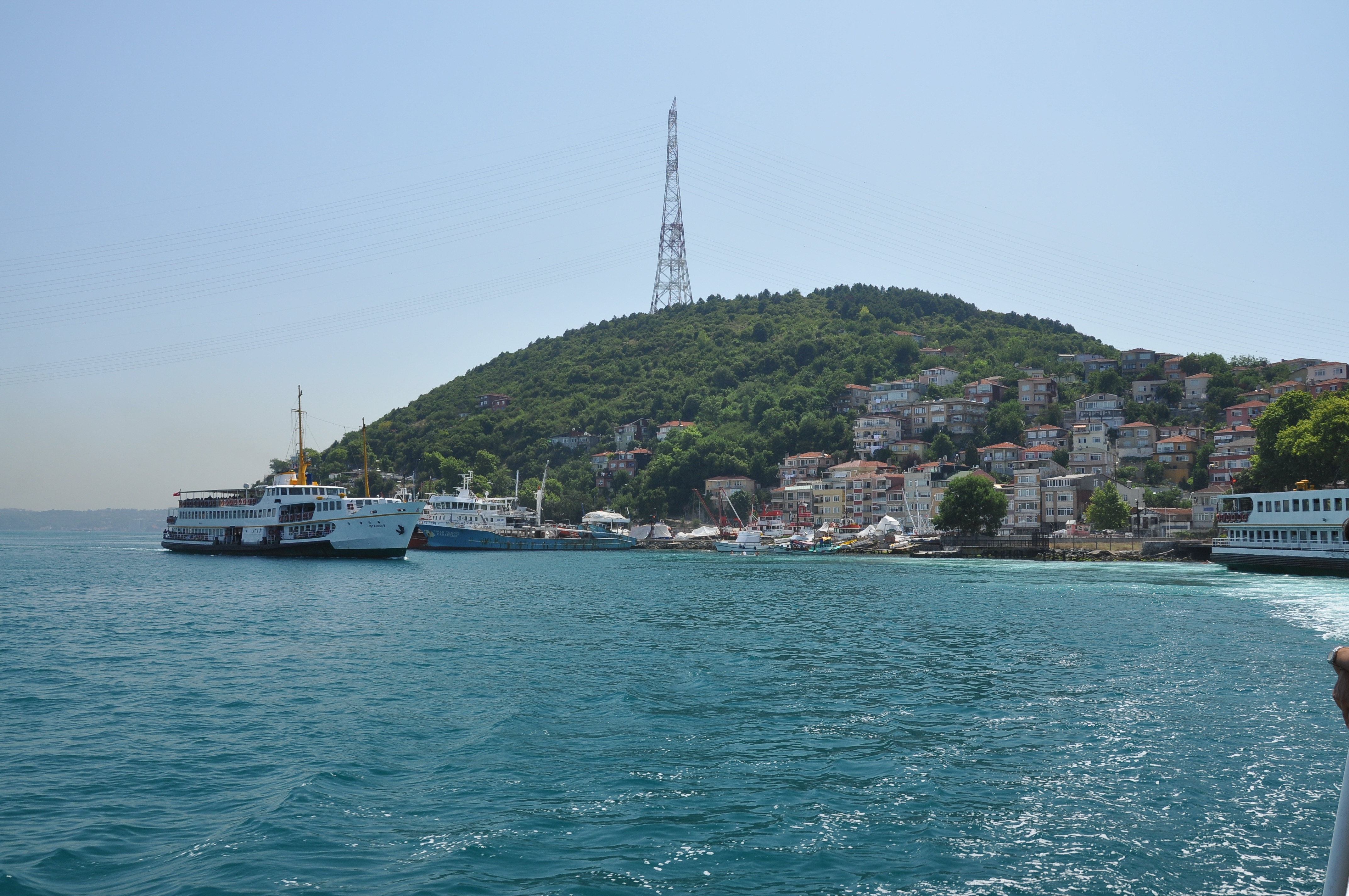 Rumeli Kavağı a little fishing harbour on the Bosphorus in the district of Sarıyer in Istanbul, Turkey.